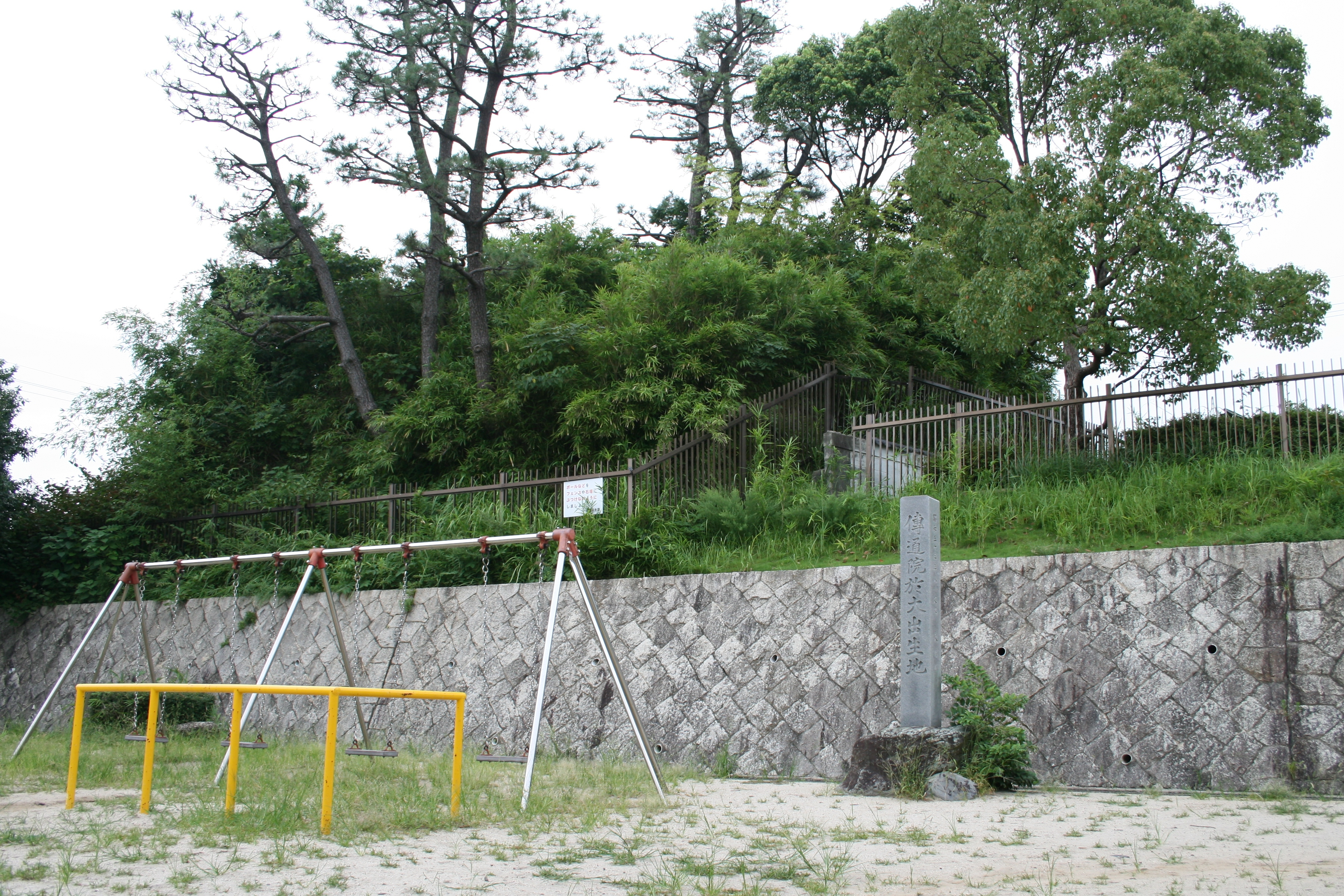 Ogawa Castle, Higashiura, Aichi, Japan